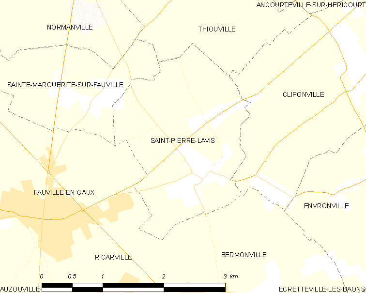 Map of French municipality Saint-Pierre-Lavis